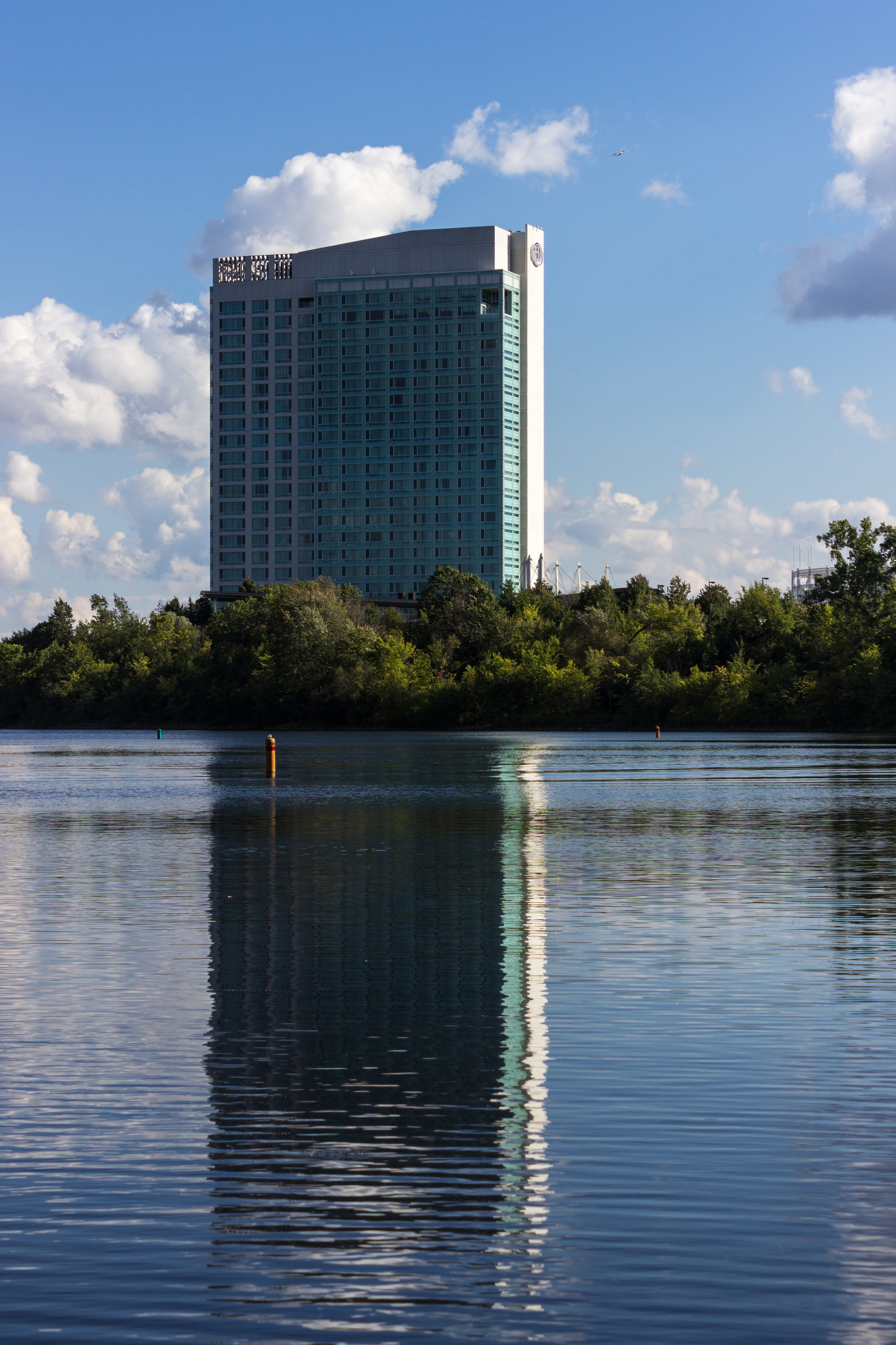 Hilton Hotel at Leamy Lake in Gatineau